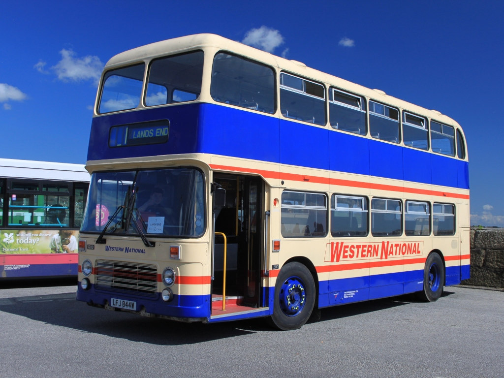 Preserved Bristol VRT LFJ 844W demonstrates the livery of Western national livery that was in use in the 1980s. It was number 1200 in that fleet and is seen at Penzance Bus Station during an enthusiast's event.